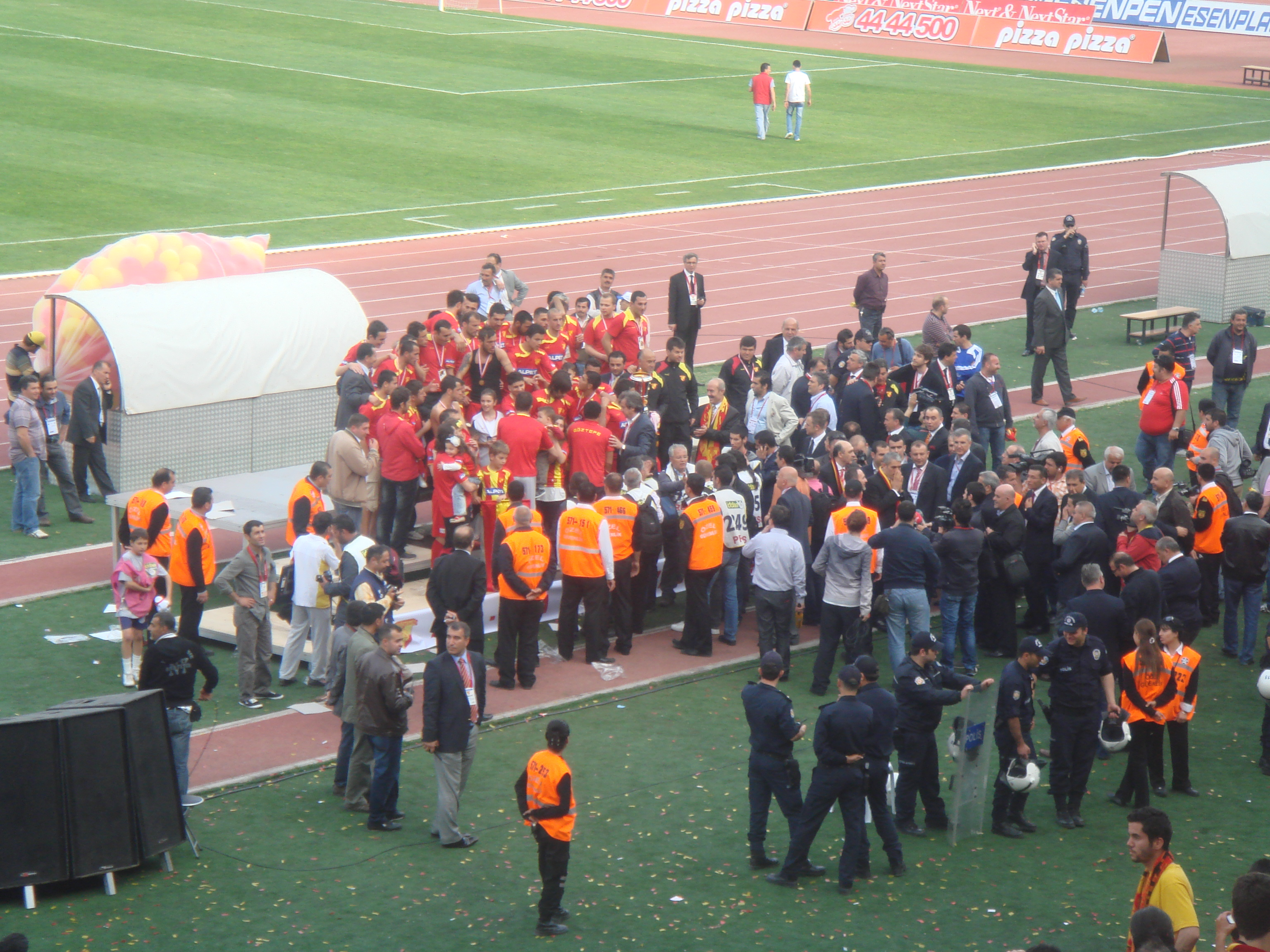 Celebrations after the win of the third league championship 2010/11 (white group)